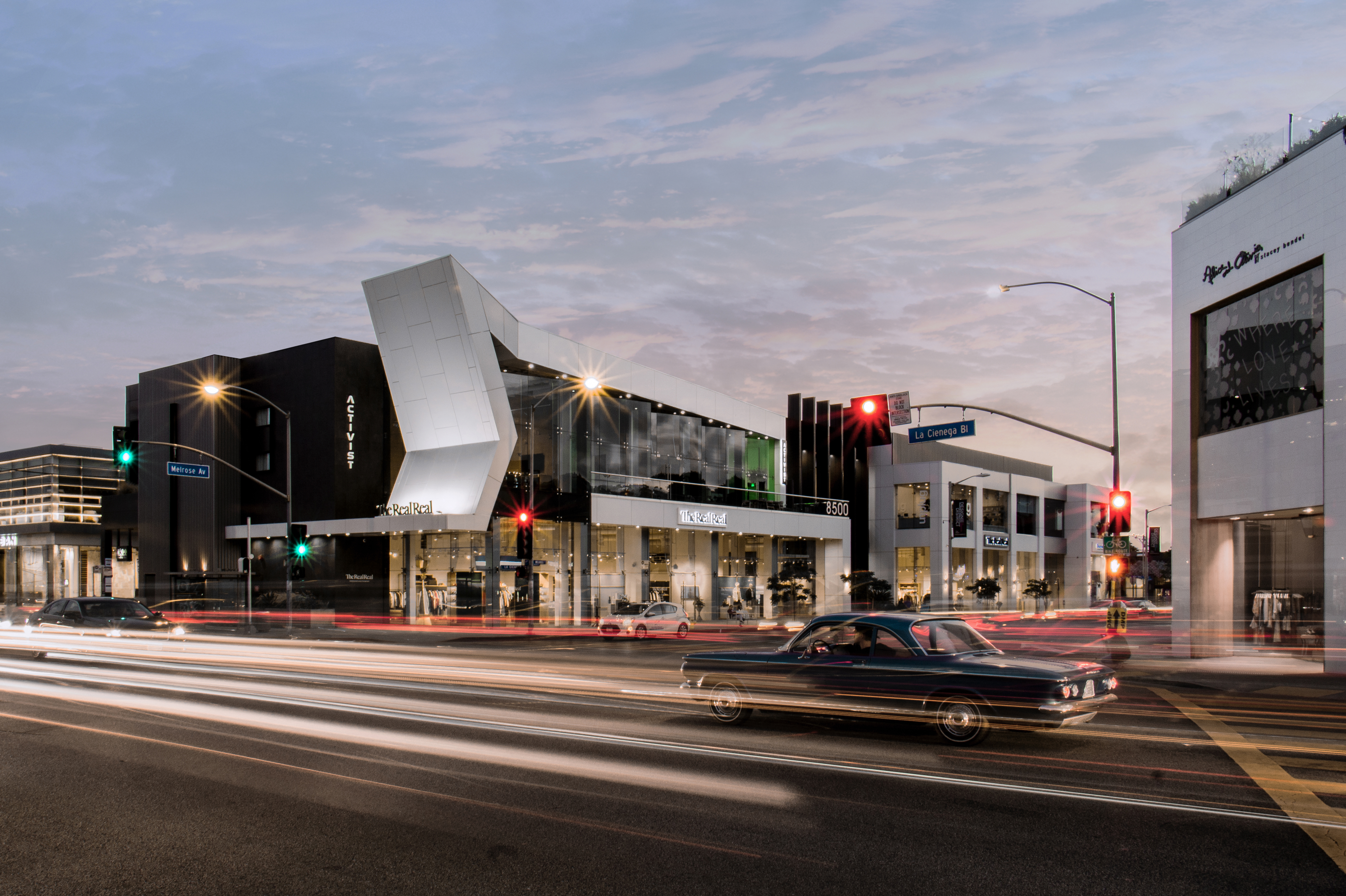 8500 Melrose, West Hollywood, CA